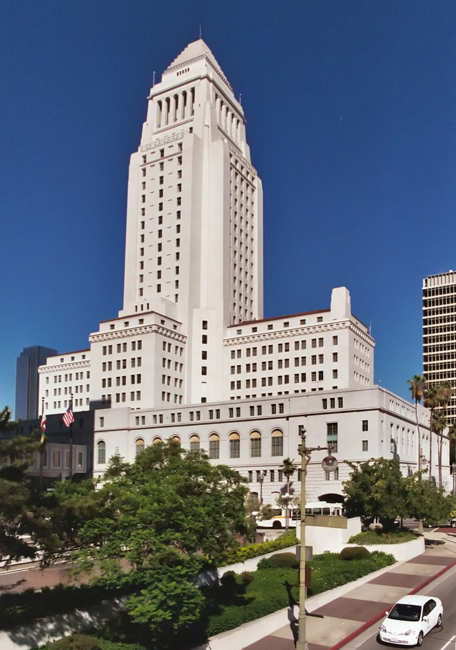 West facade of the Los Angeles City Hall — in Downtown Los Angeles, California. In process of seismic upgrading, this 1928 high-rise building was placed atop a mechanical system of isolators, sliders, and dampers called "base isolation technology". It is the tallest base-isolated structure in the world.